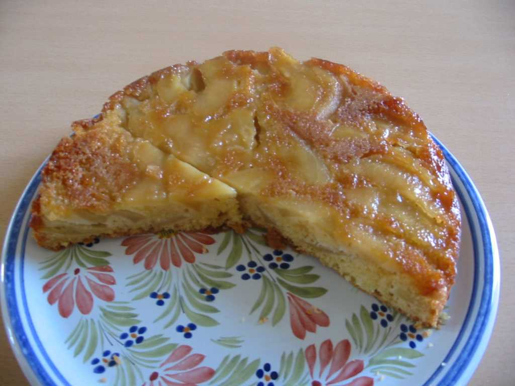 pieces of Pudding